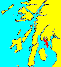 Map over Bute, Scotland